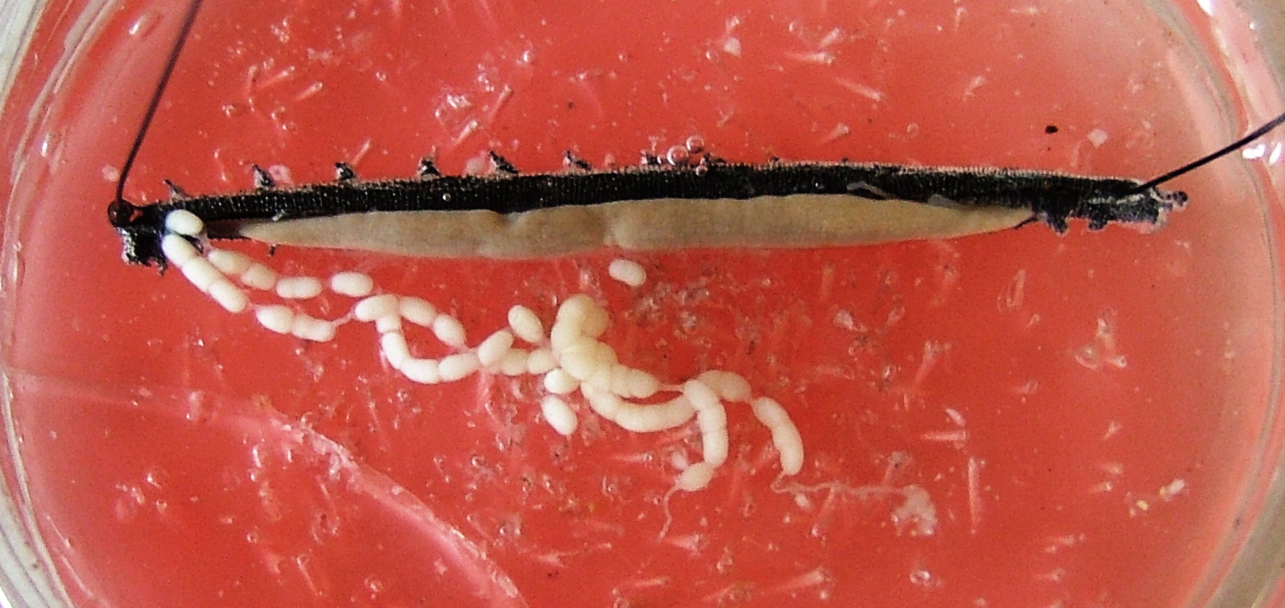 A dissection of the onychophoran Euperipatoides kanangrensis. The width of the dish is approx. 4 cm. The two ovaries, full of stage II embryos, are floating to the bottom of the image. The brown mass of the viscera is partially protruding from the body cavity.